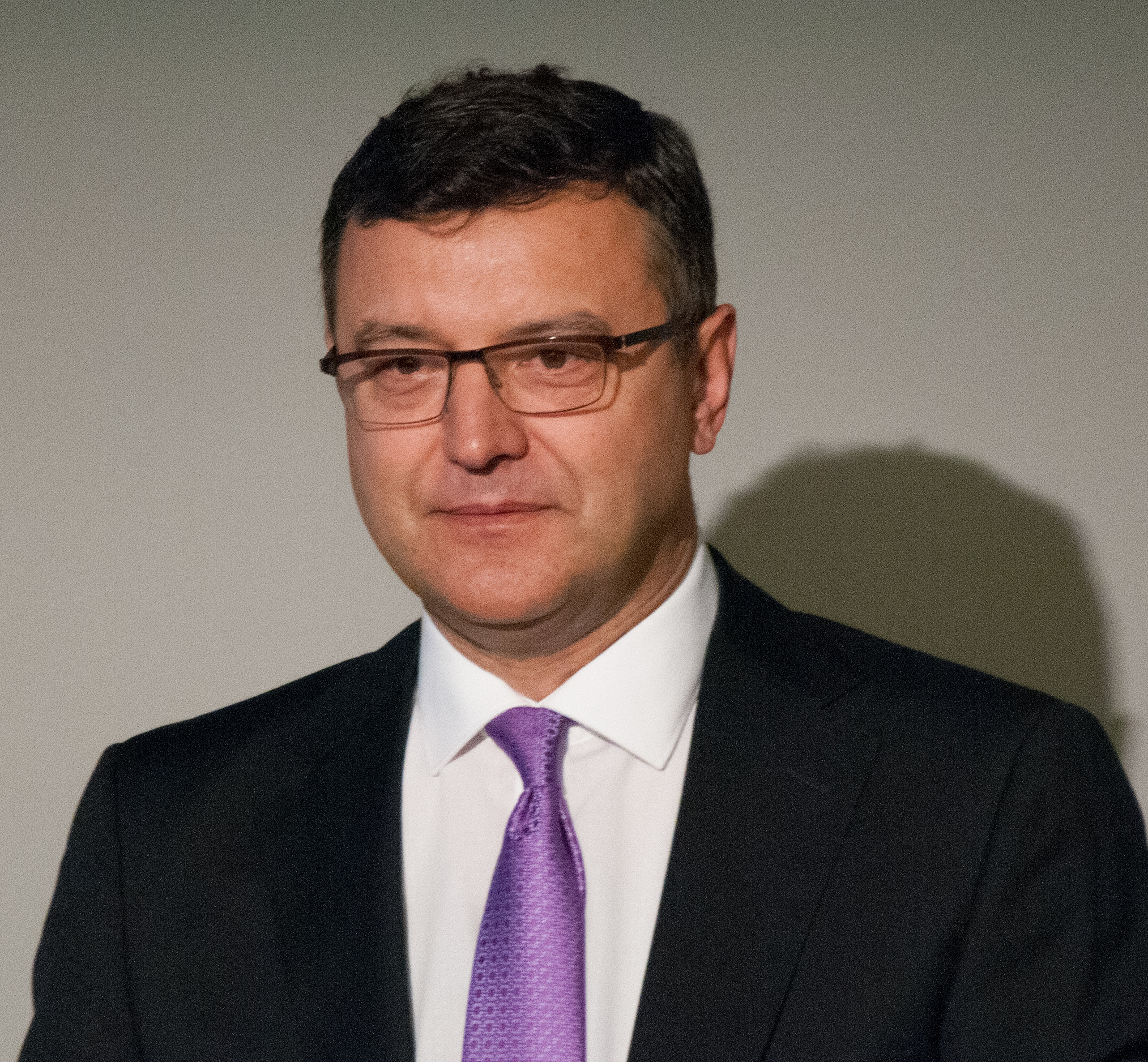 25. Baltic Sea Parliamentary Conference vom 28.-30. August 2016 in Riga. THIRD SESSION: Jānis Reirs, Minister of Welfare, Latvia